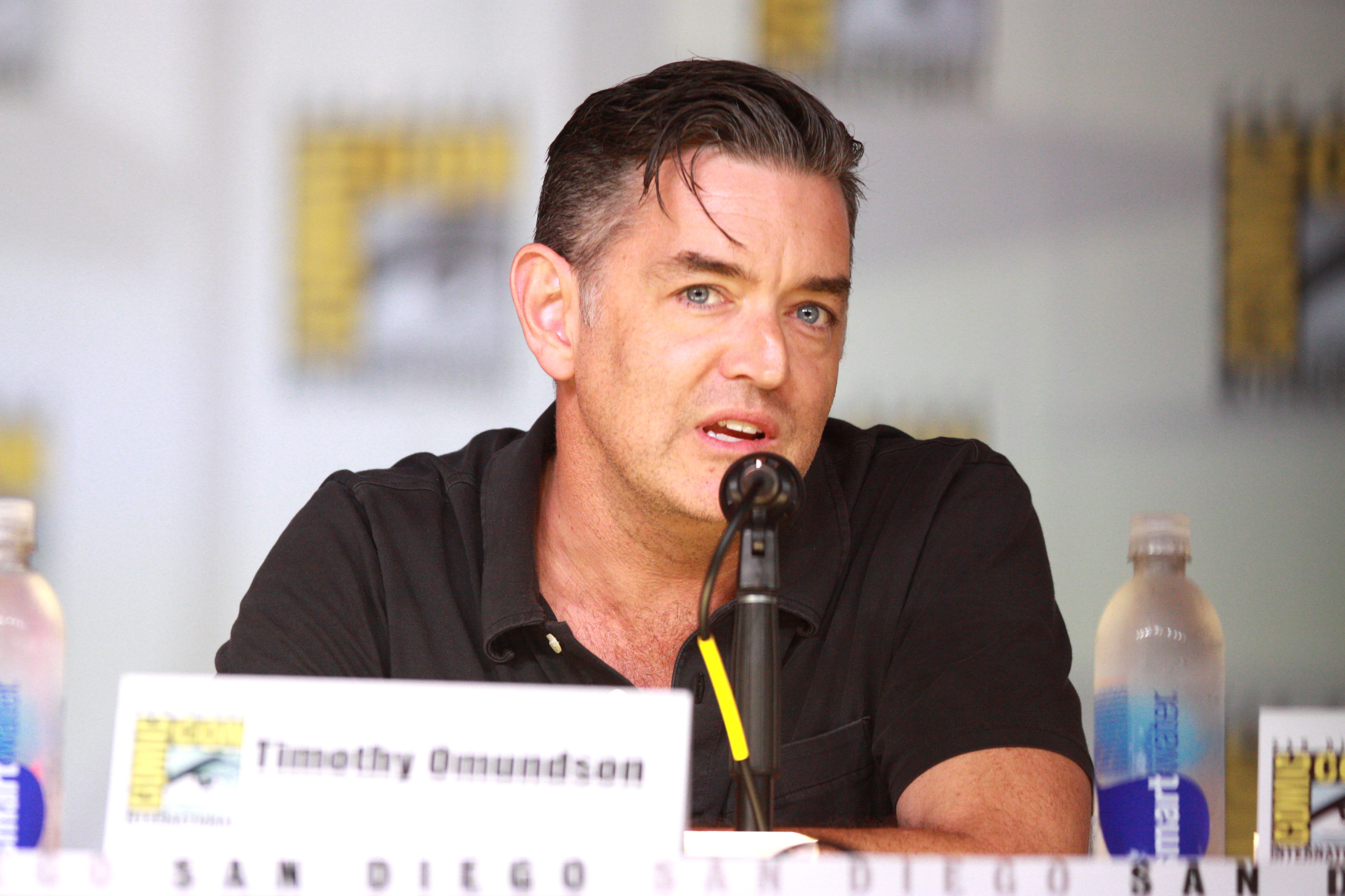 Tim Omundson speaking at the 2013 San Diego Comic Con International, for "Psych", at the San Diego Convention Center in San Diego, California.